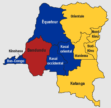 Results of the 2006 election in dr congo. Red - Joseph Kabila; Blue - Jean-Pierre Bemba; Green - Antoine Gizenga